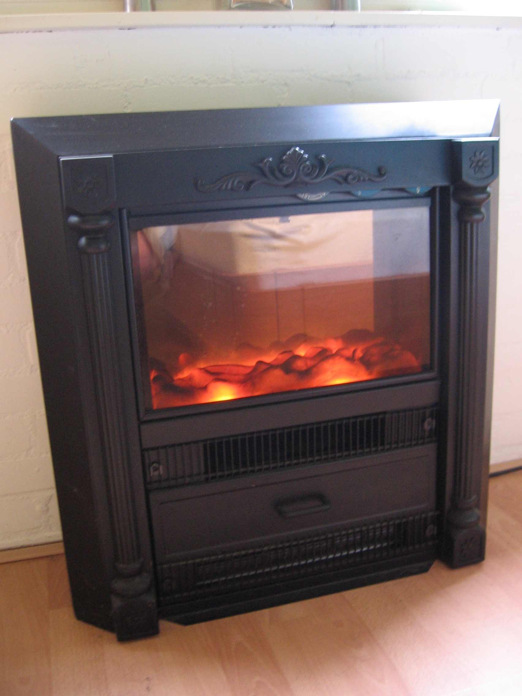 Electric radiant heater.